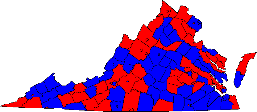 Map showing county choices of the 1978 Senate election in Virginia, between Republican John Warner and Democrat Andrew P. Miller